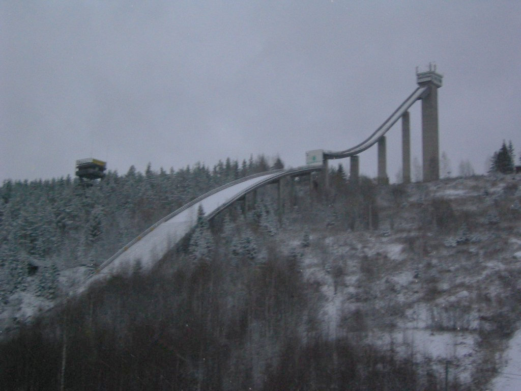 Ski jump hill in Kaipola, Jämsä, Finland